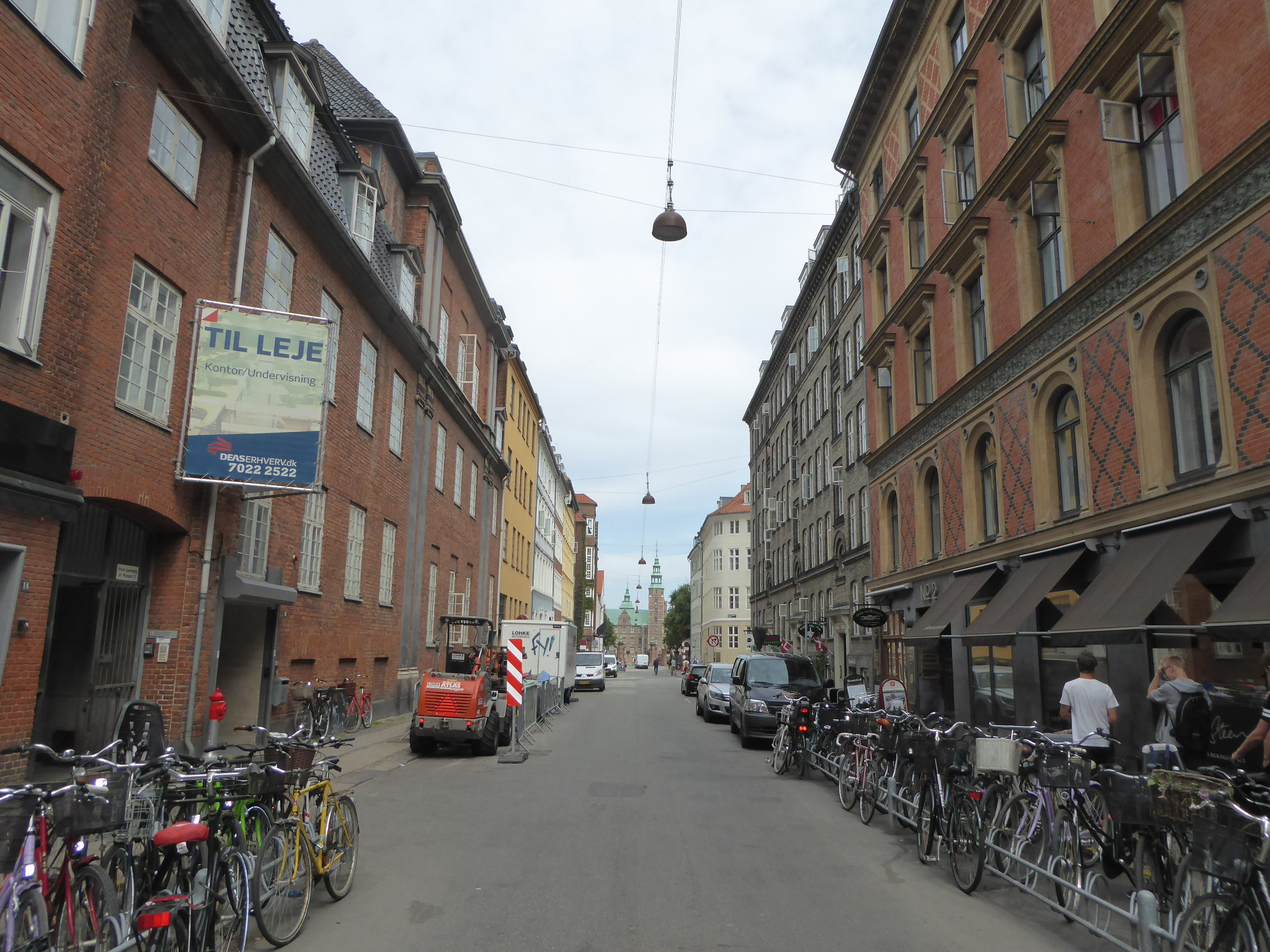 The street Rosenborggade in Indre By in Copenhagen.